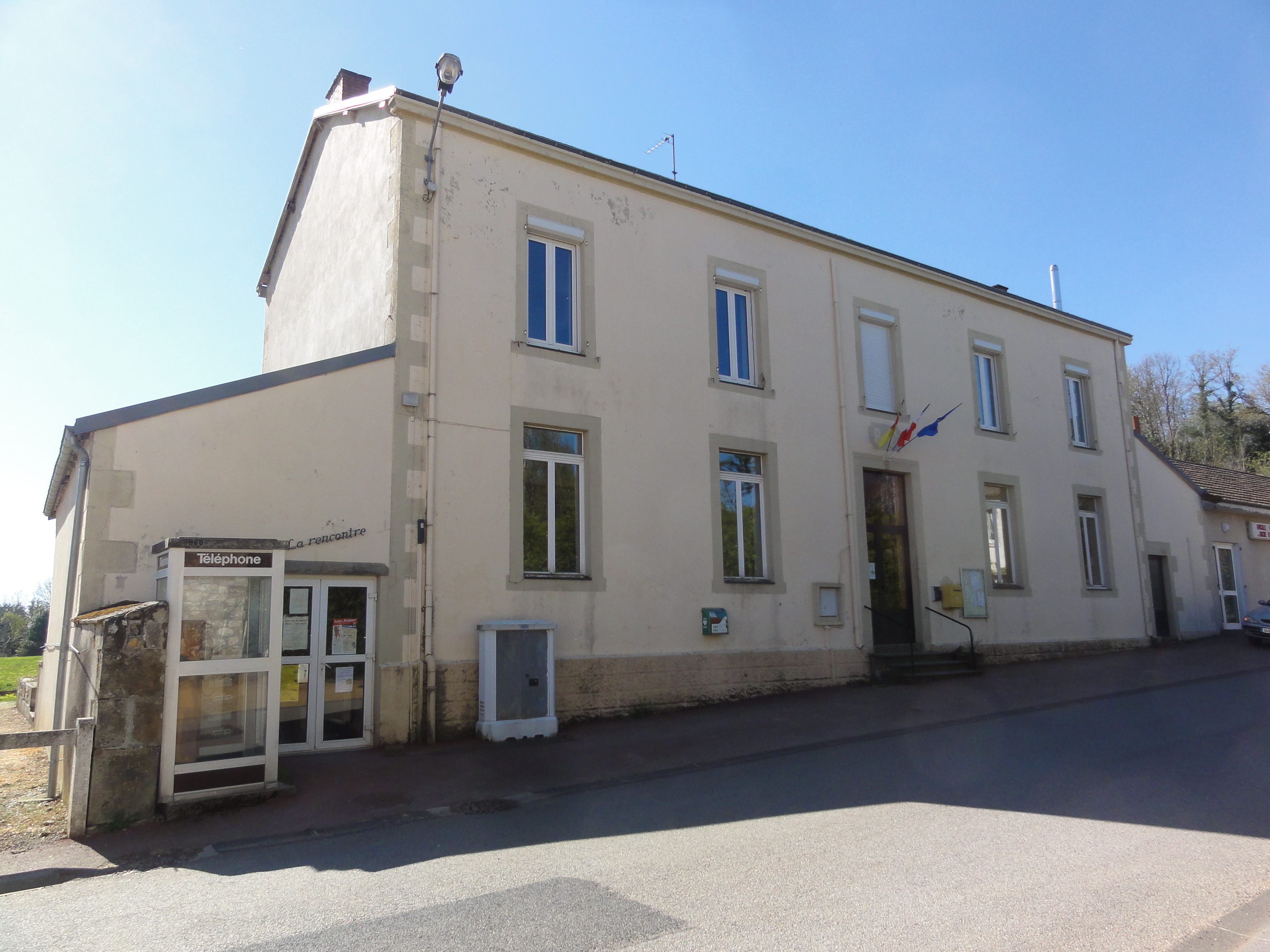 Roche d'Agoux (Puy-de-Dôme) mairie